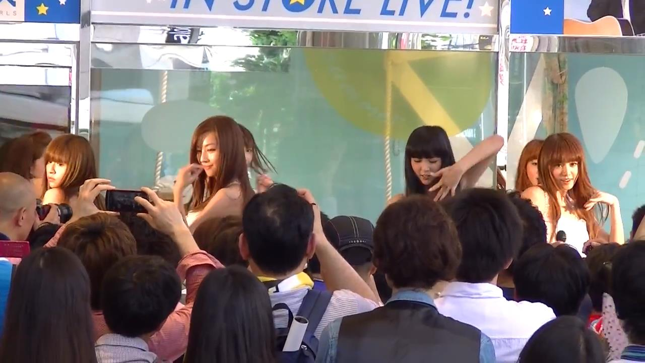 Weather Girls perform at Marui City, Shibuya, Tokyo, 2013-07-07.